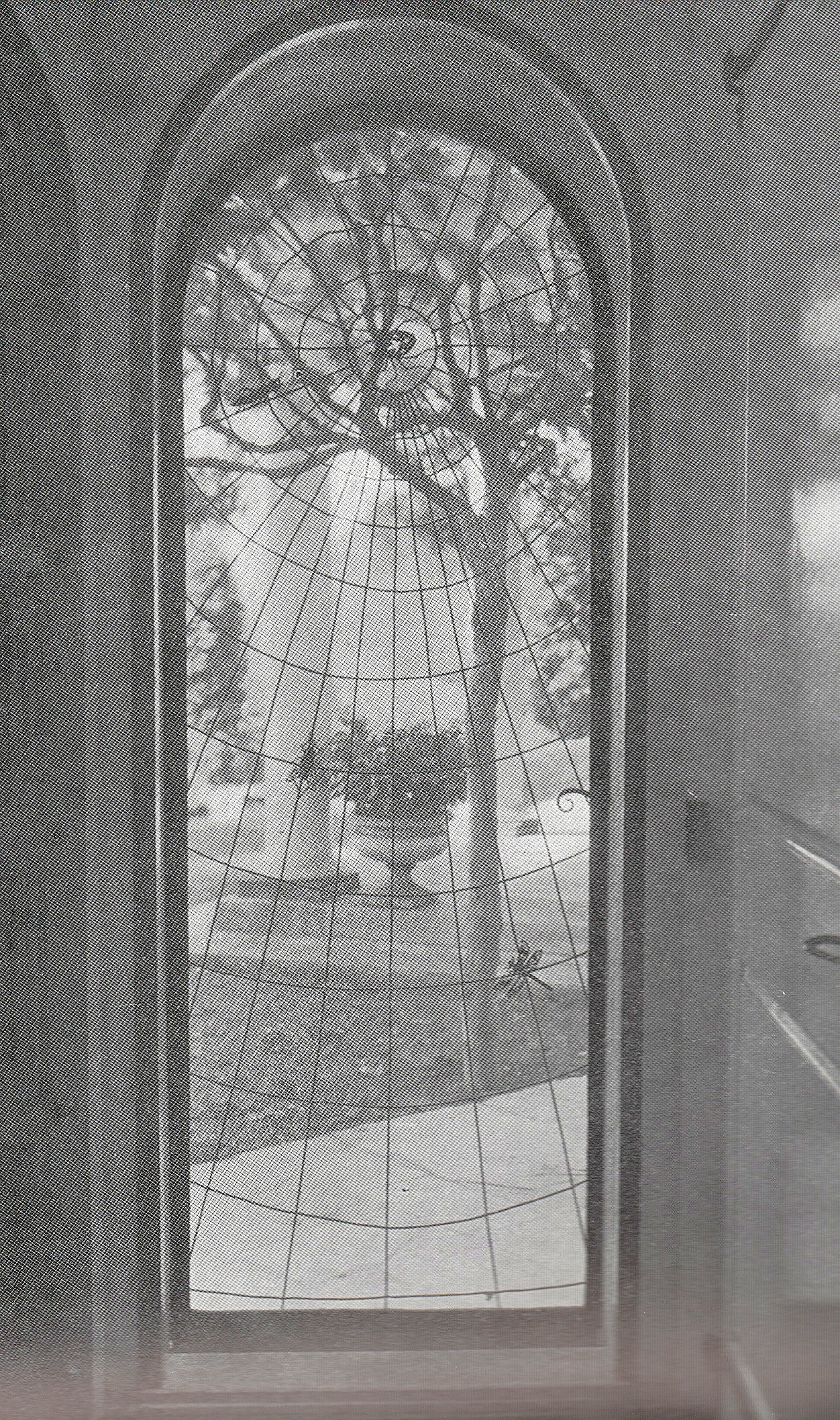 a screen door created by Samuel Yellin